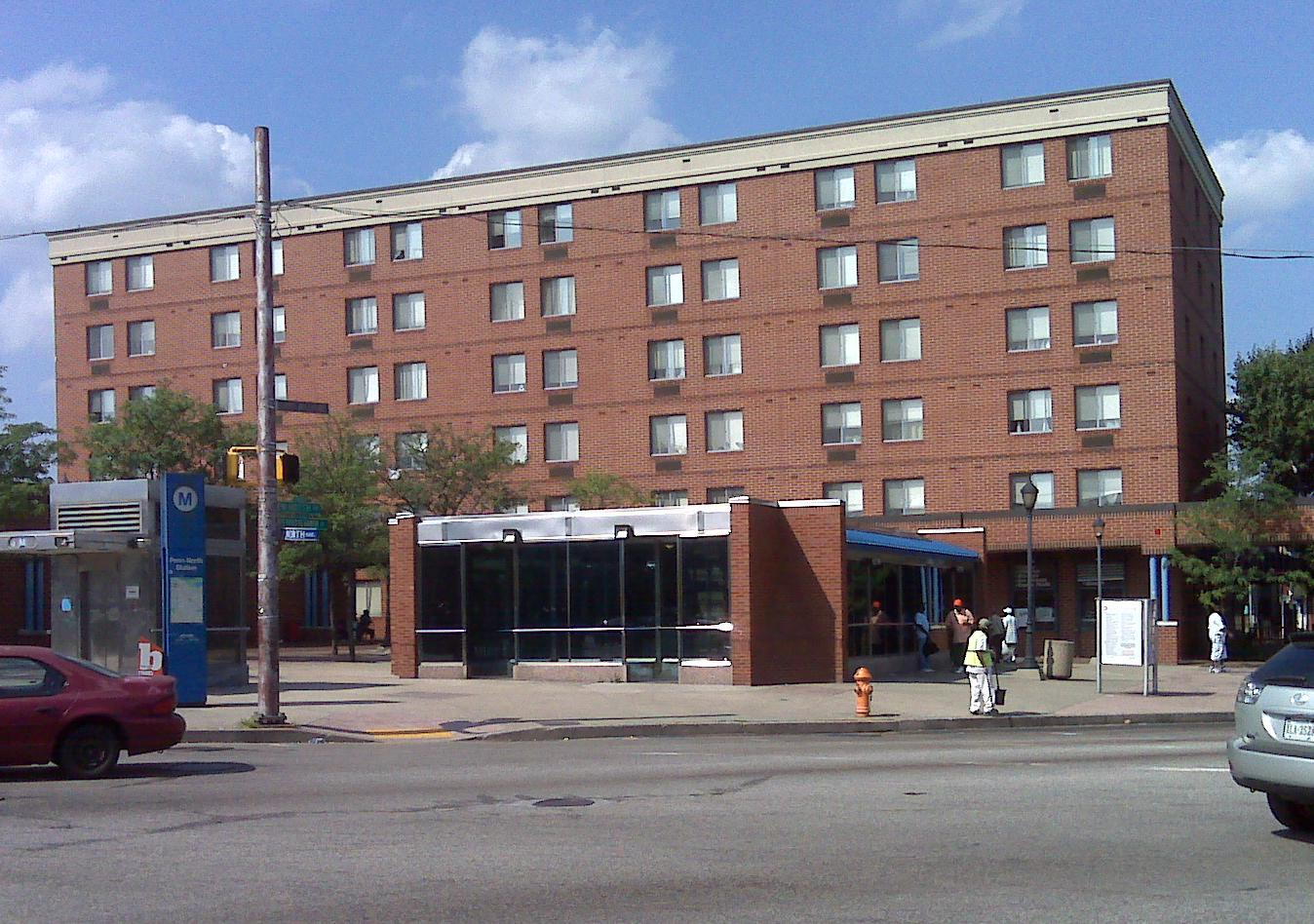 A picture of the northern Penn-North entrance, to the northeast corner of Pennsylvania and North Avenues' intersection. The southern entrance is behind the camera.